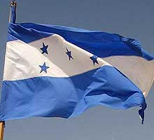 Flag of Honduras